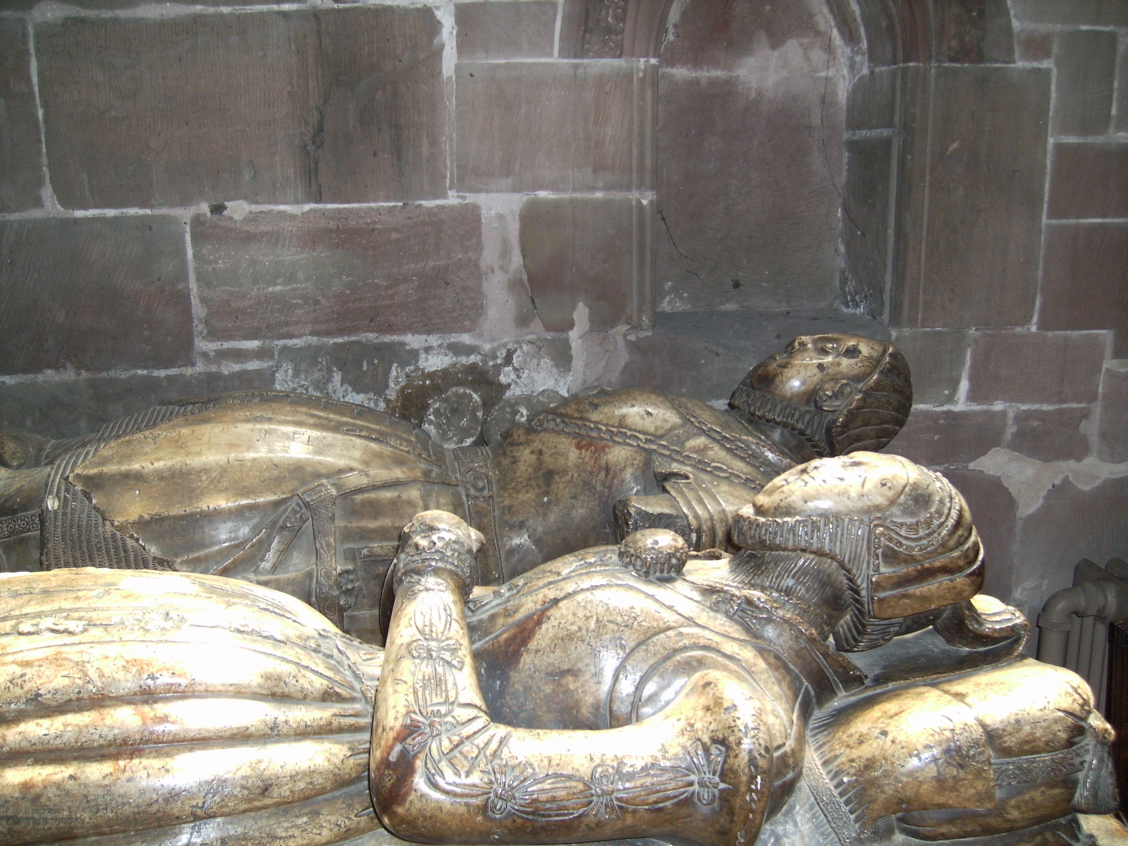 Tomb of John and Joyce Leveson, St Peter's church, Wolverhampton, alabaster, c.1575, by Robert Royley of Burton on Trent.